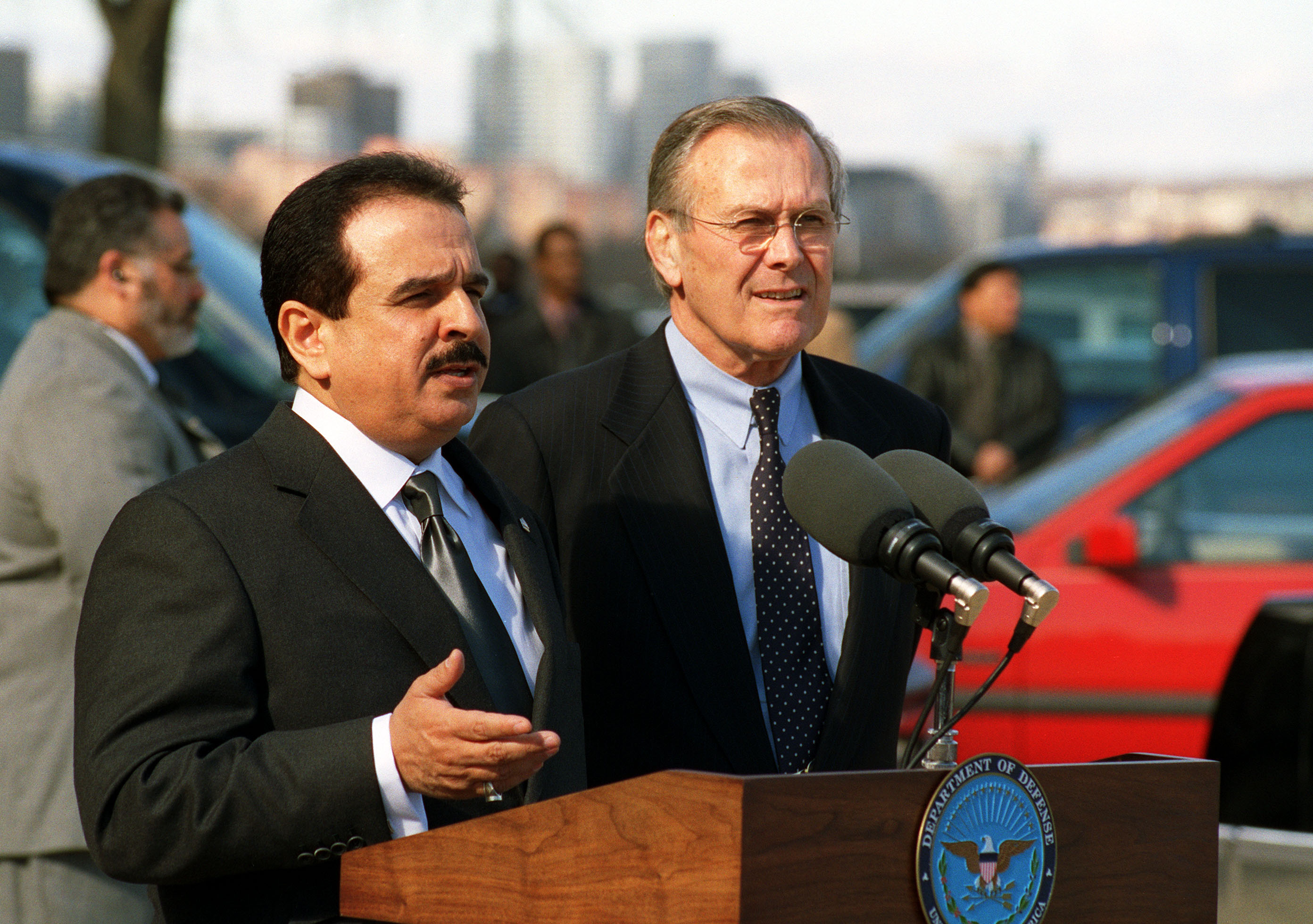 King Hamad bin Isa Al Khalifa (left) of Bahrain responds to a reporter's question during joint press availability with Secretary of Defense Donald H. Rumsfeld (right) outside the Pentagon on Feb. 4, 2003. The two men met earlier to discuss a range of bilateral and regional security issues.